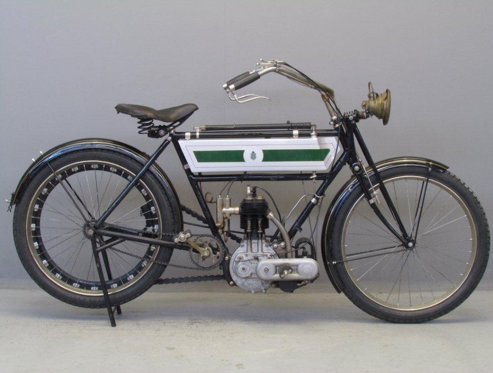 1907 Triumph 3½ HP Model 485 cc motorcycle